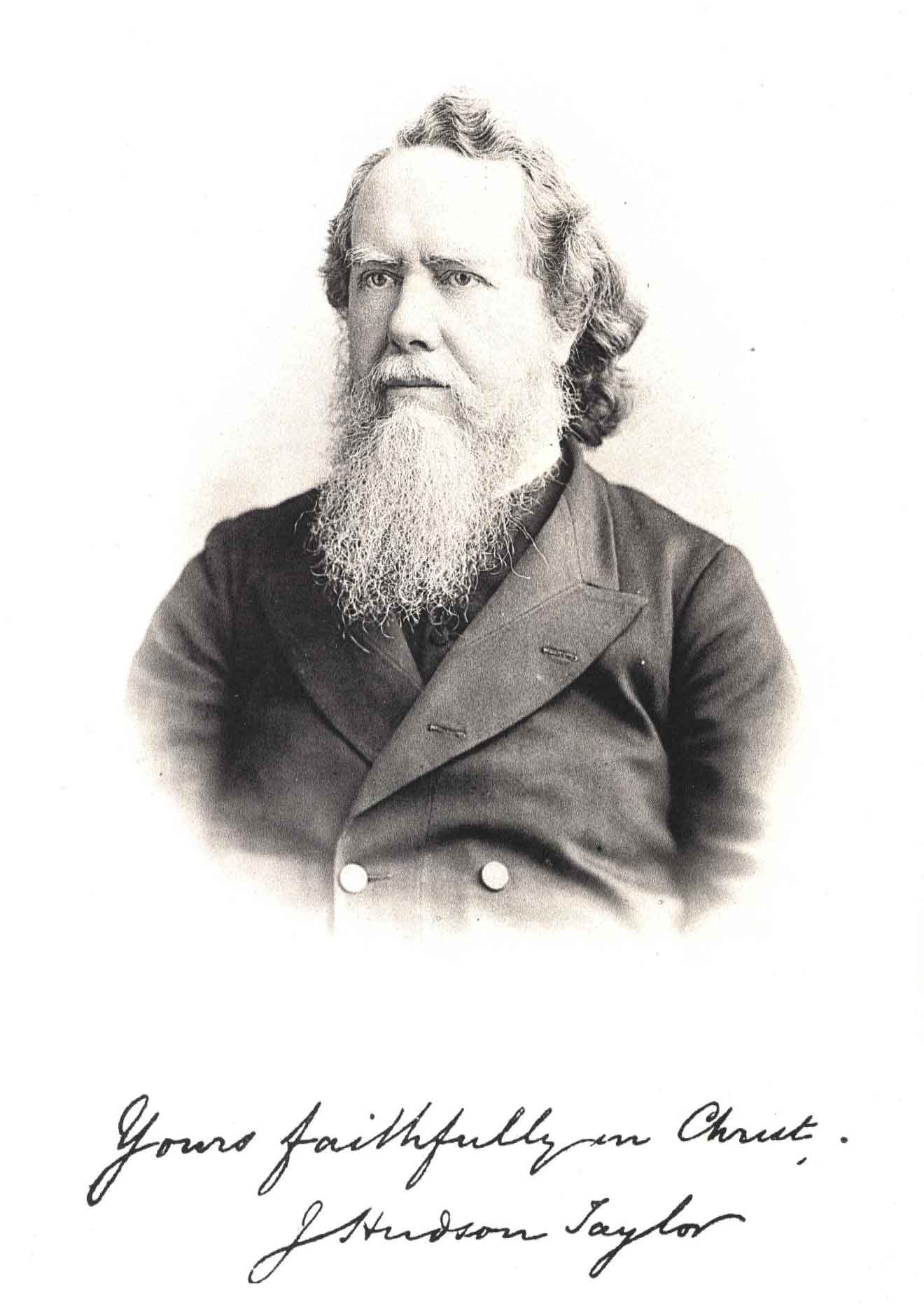 Hudson Taylor; From The Story of The China Inland Mission, by Geraldine Guinness. London: Morgan & Scott, 1893